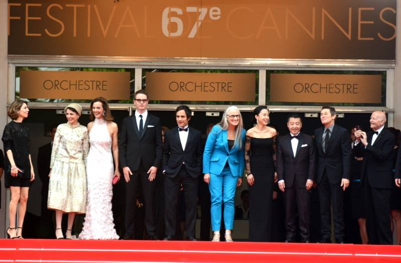 The main competition jury of the 67th Cannes Film Festival. Left to right : Sofia Coppola, Leila Hatami, Carole Bouquet, Nicolas Winding Refn, Gael García Bernal, Jane Campion, Jeon Do-yeon, Jia Zhangke, Willem Dafoe, and festival president Gilles Jacob